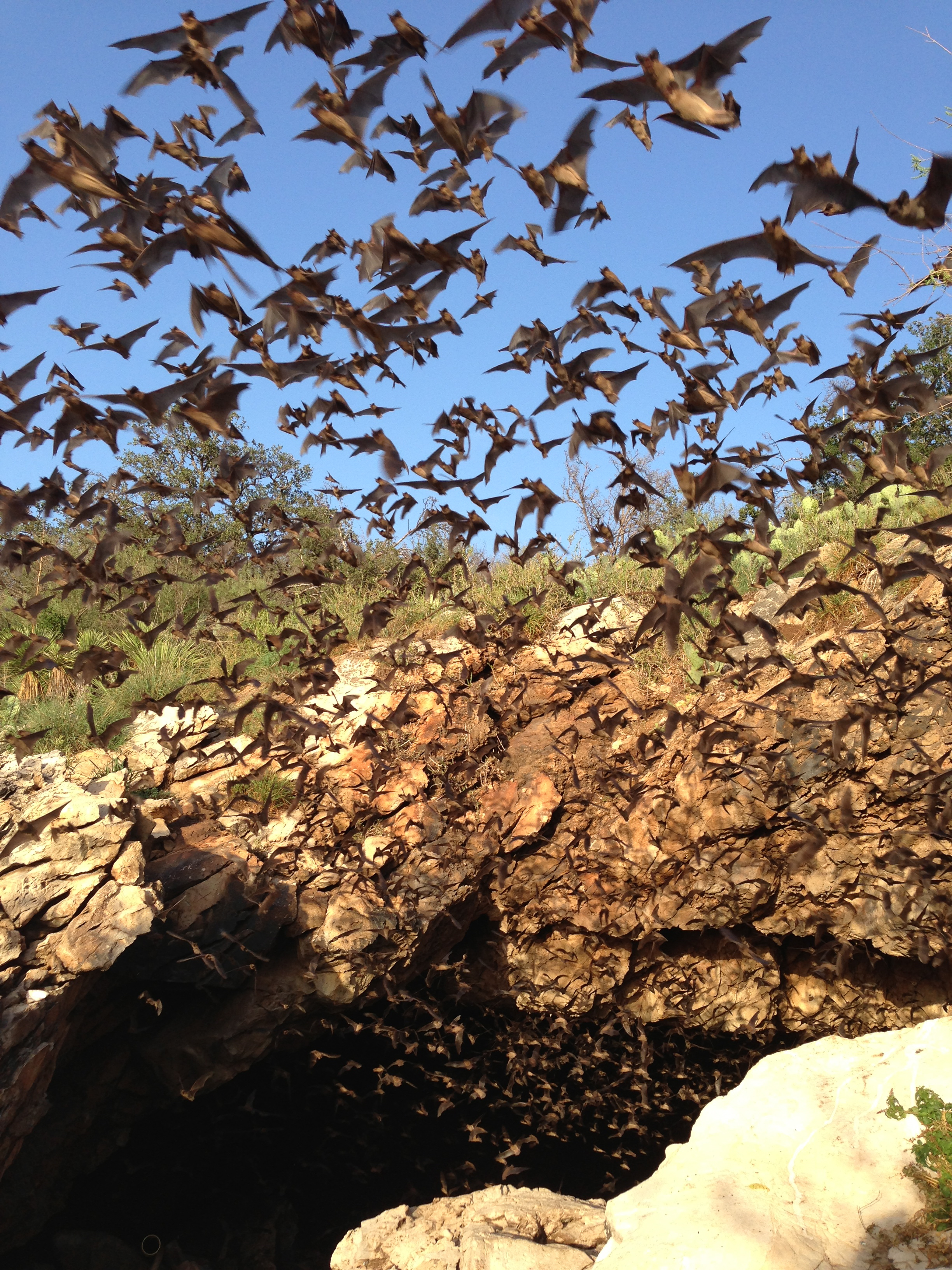 photo credit: USFWS/Ann Froschauer